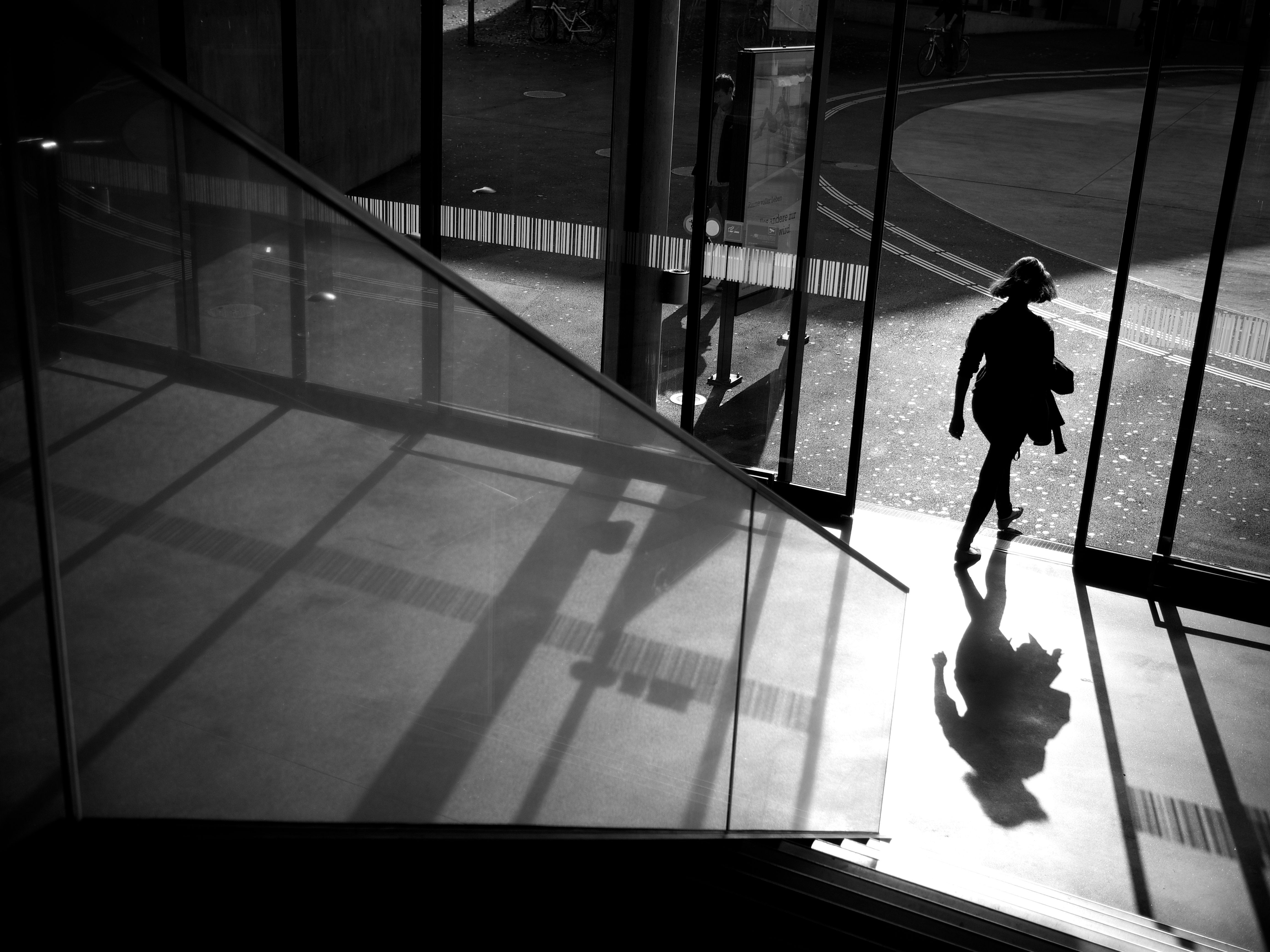 Thomas Leuthard beautiful composition and lighting